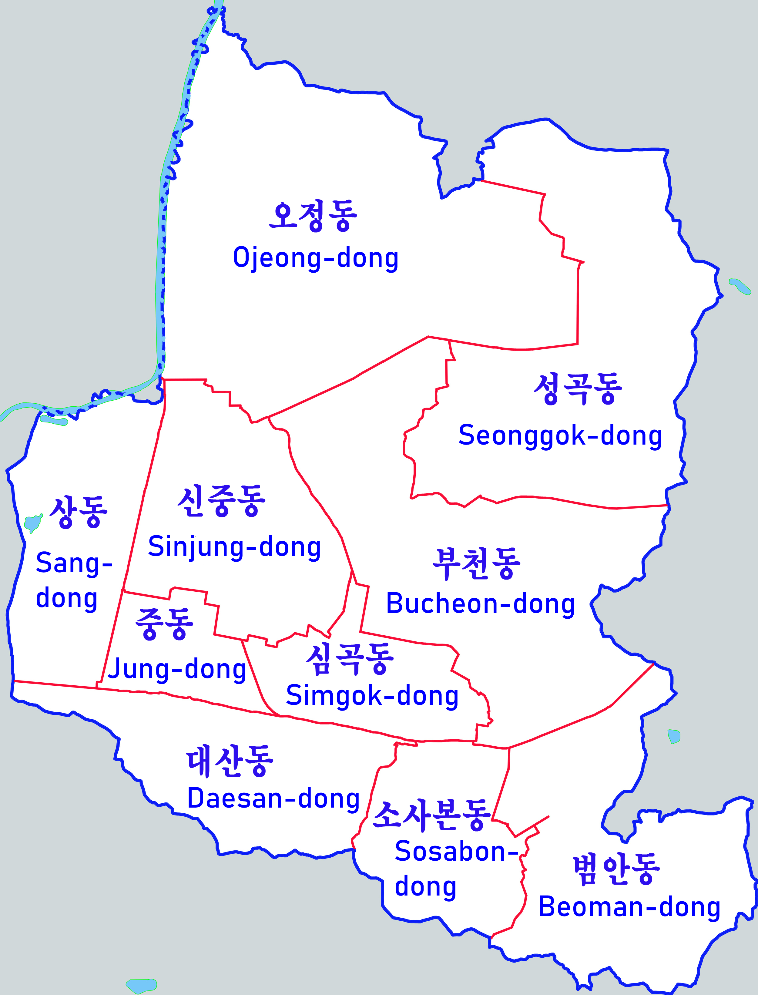 Map over Bucheon South Korea, with the administrative districts (dongs) as of 2019. Based on Bucheon-map.png.